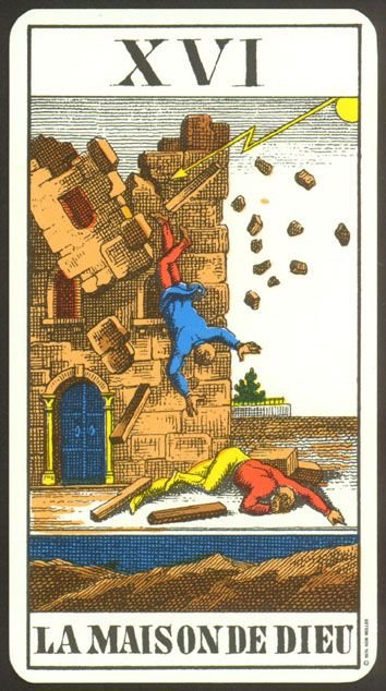 Trump XVI (The Tower) from the 1JJ tarot deck